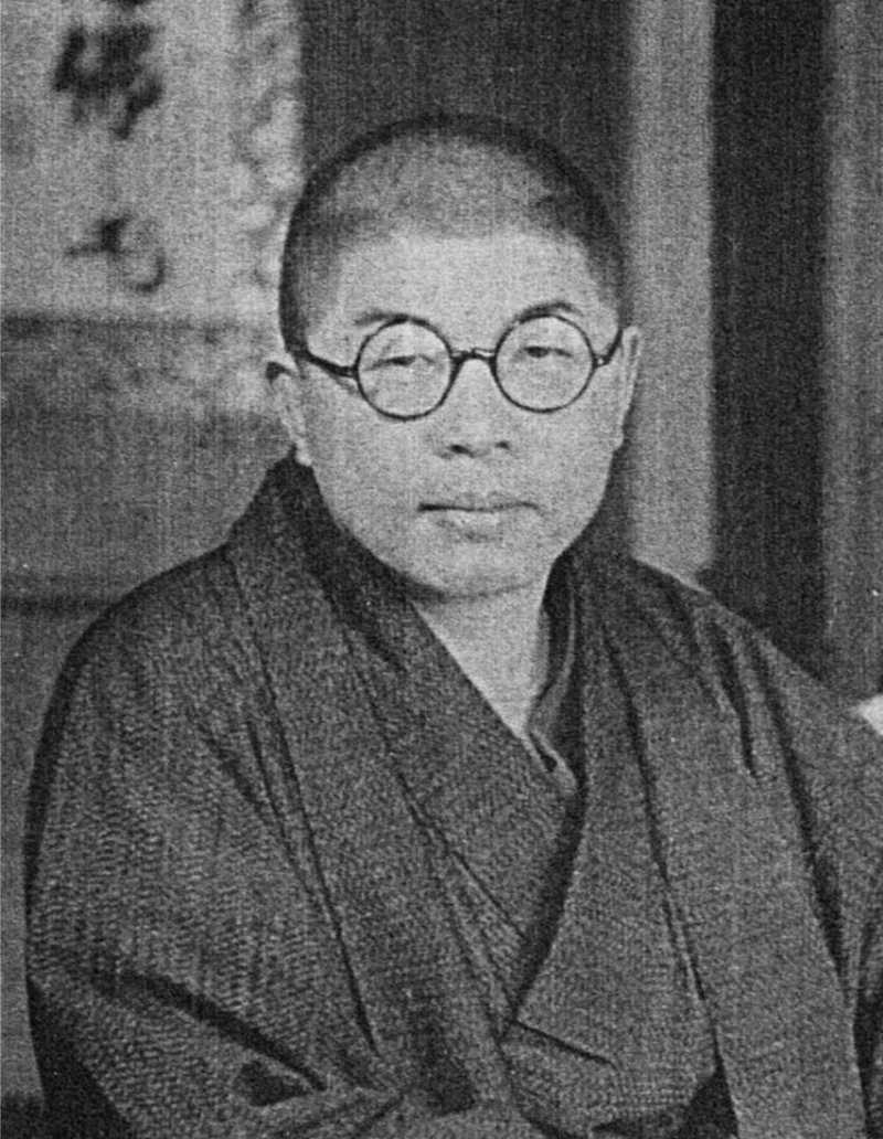 Photo of the screenwriter Yasutarō Yagi.